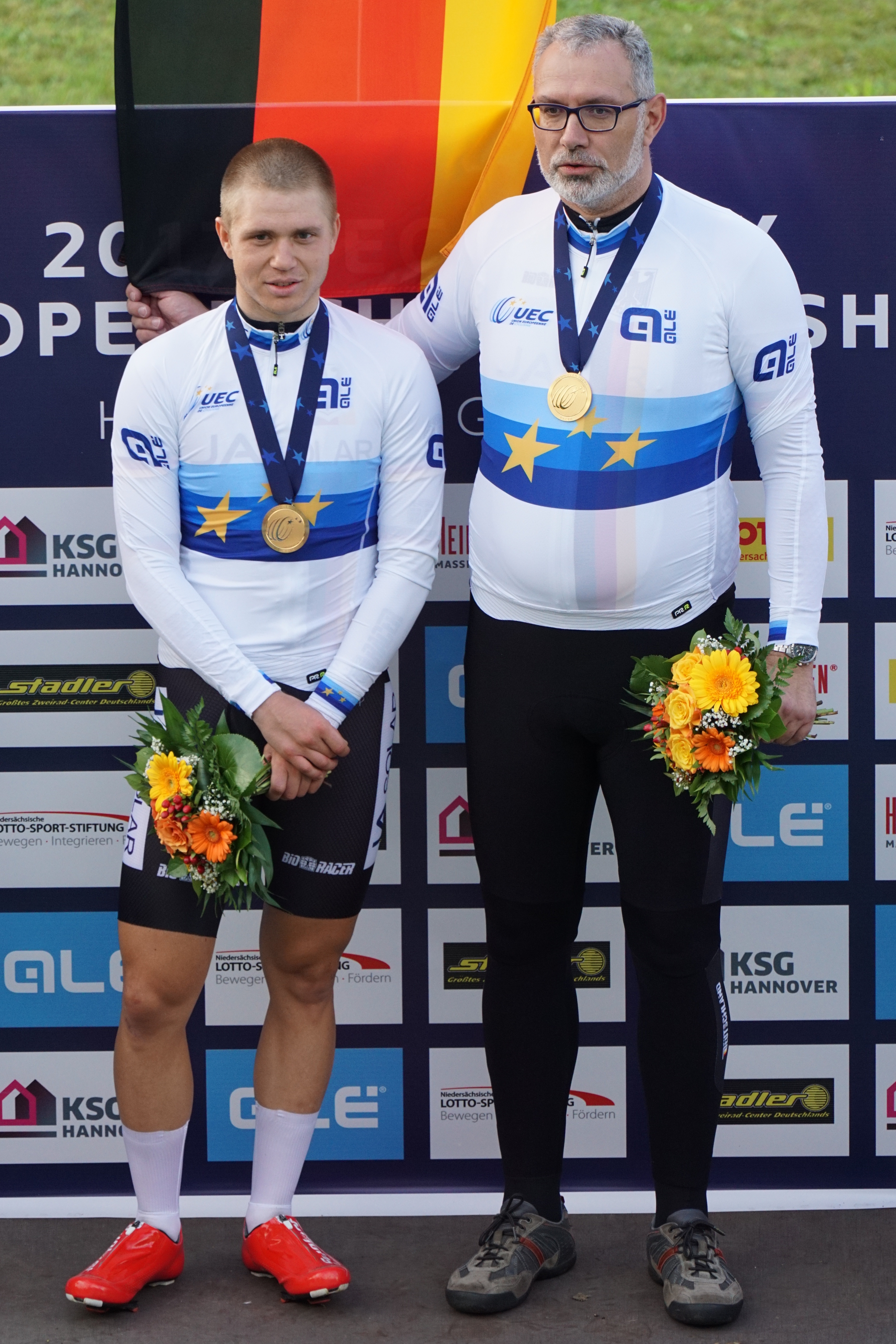 UEC Derny European Championships 2017 - Final, 120 laps / 40 km, f.l.t.r. Achim Burkart (Germany), Christian Ertel (Germany)